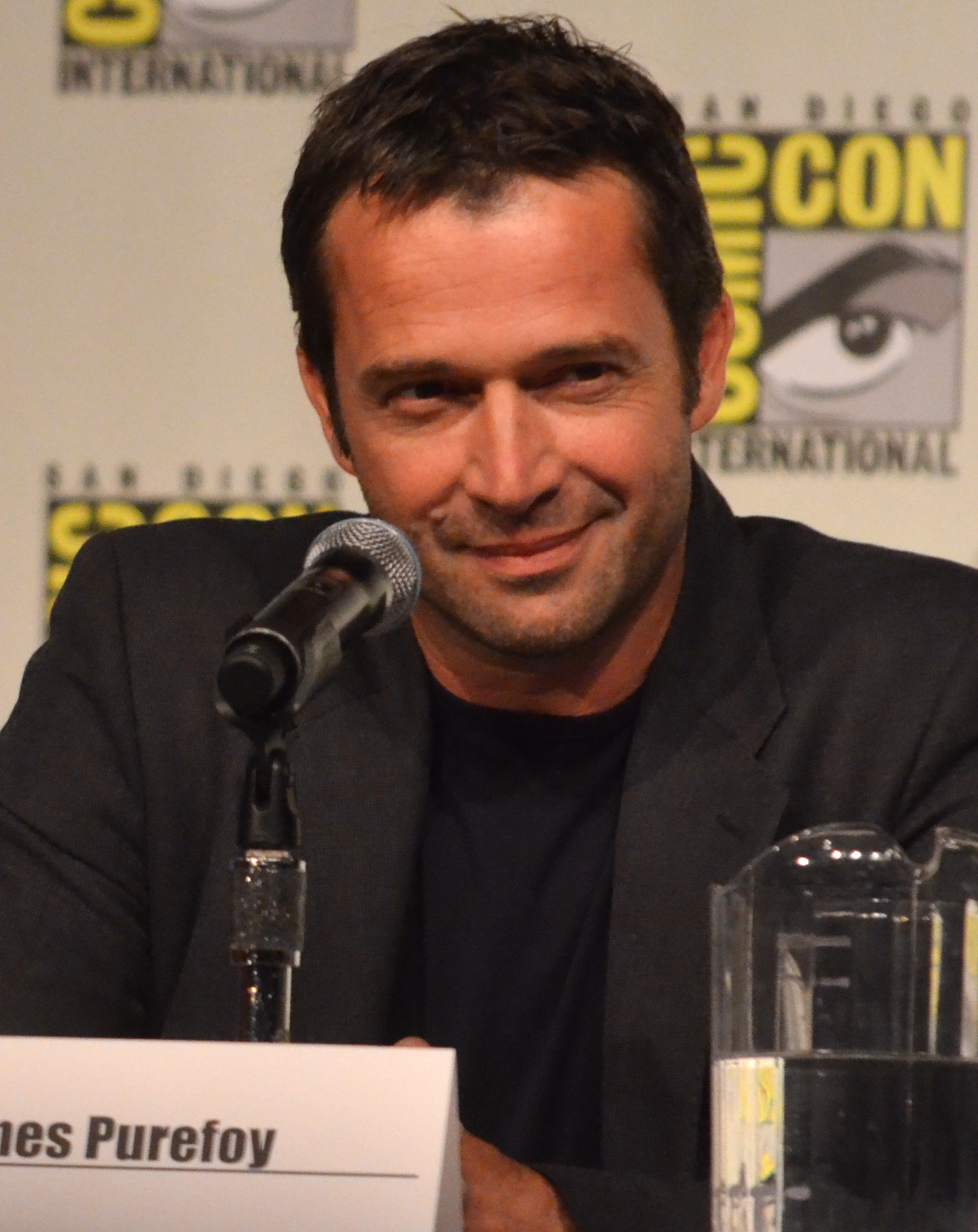 James Purefoy at Comic-Con 2012